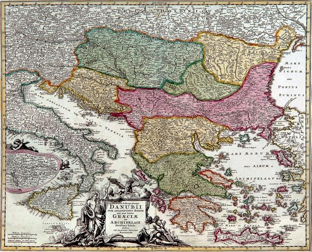 General map representing the Danube's course from Fluviorum in Europa principis